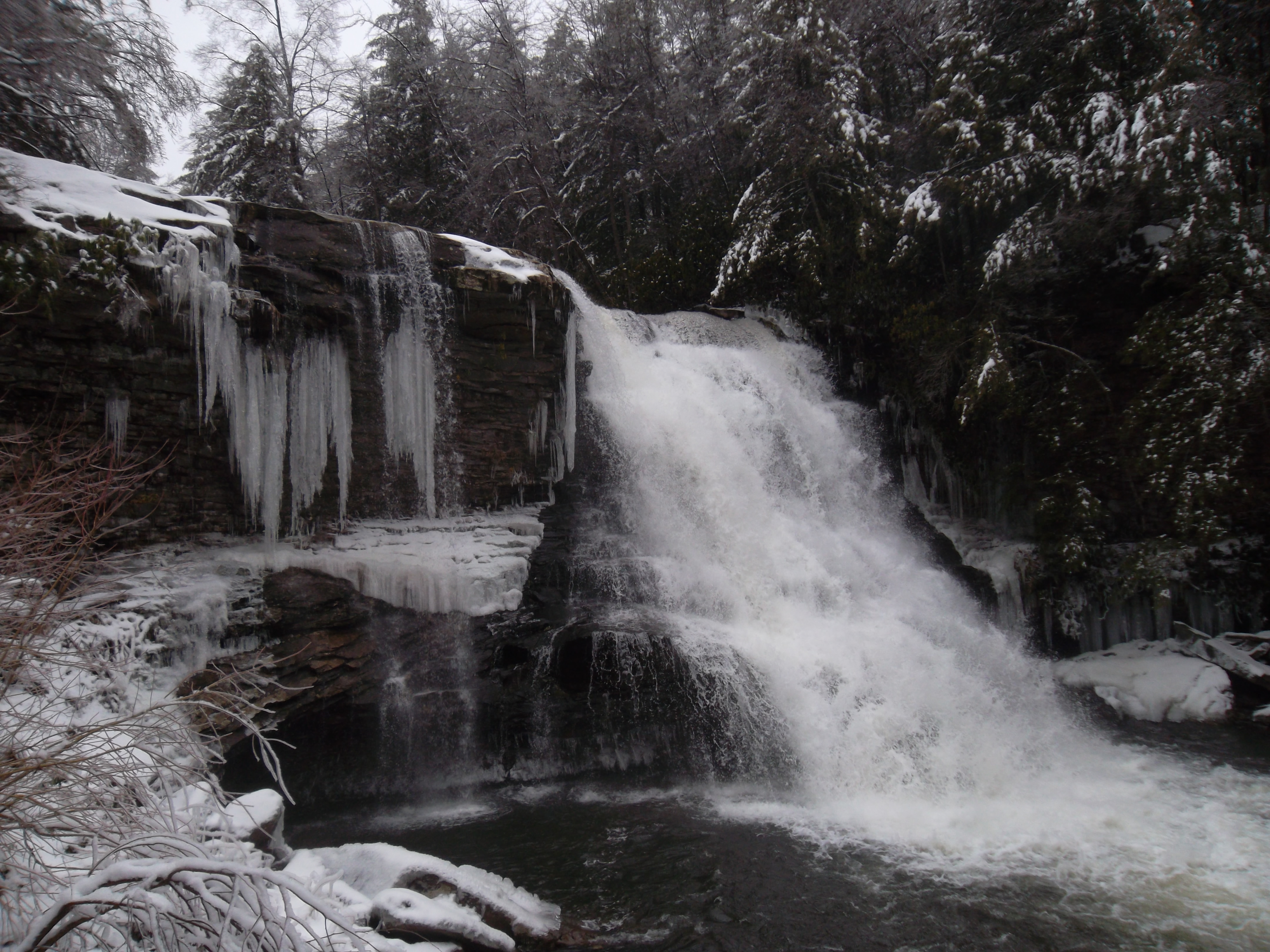 Muddy Creek Falls in winter